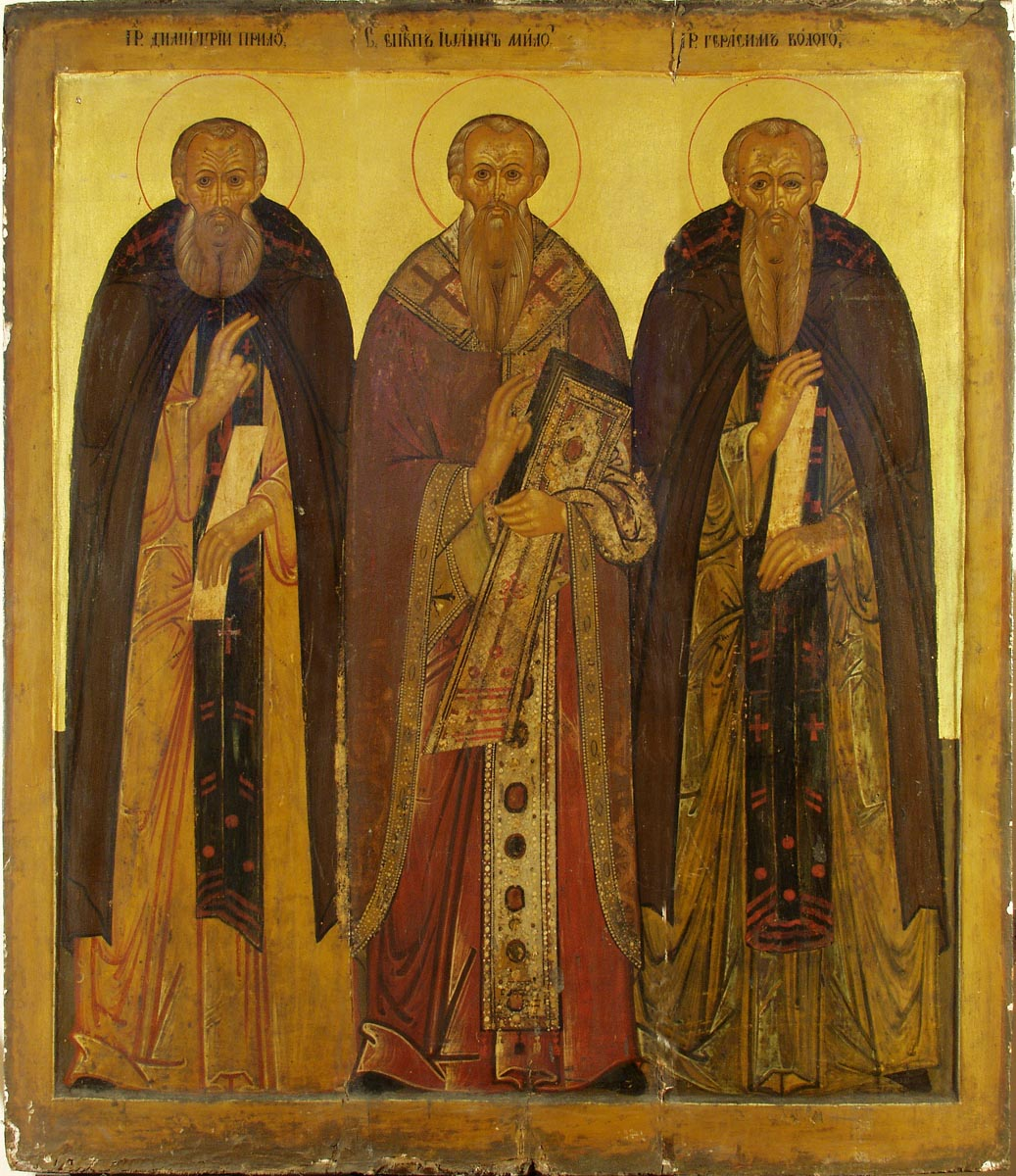 Gerasim of Vologda, XVII century icon from VSHAAMR